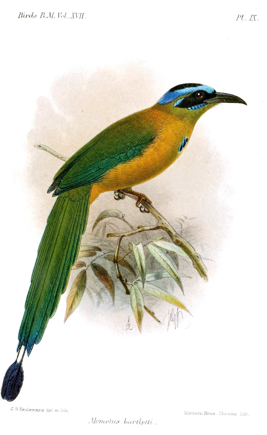 Obscure Motmot